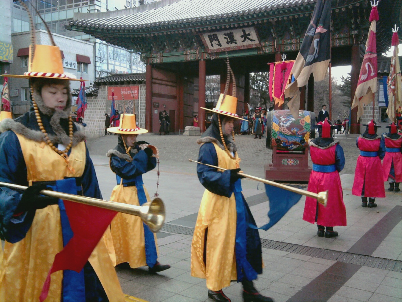 Reenactment of changing of the palace guards during Joseon dynasty. Palace bands are tracking guards. They play drum, bugle, trumpet shell and so on.